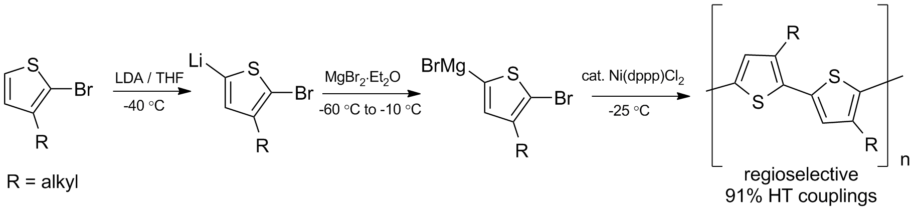 Synthesis of PAHT